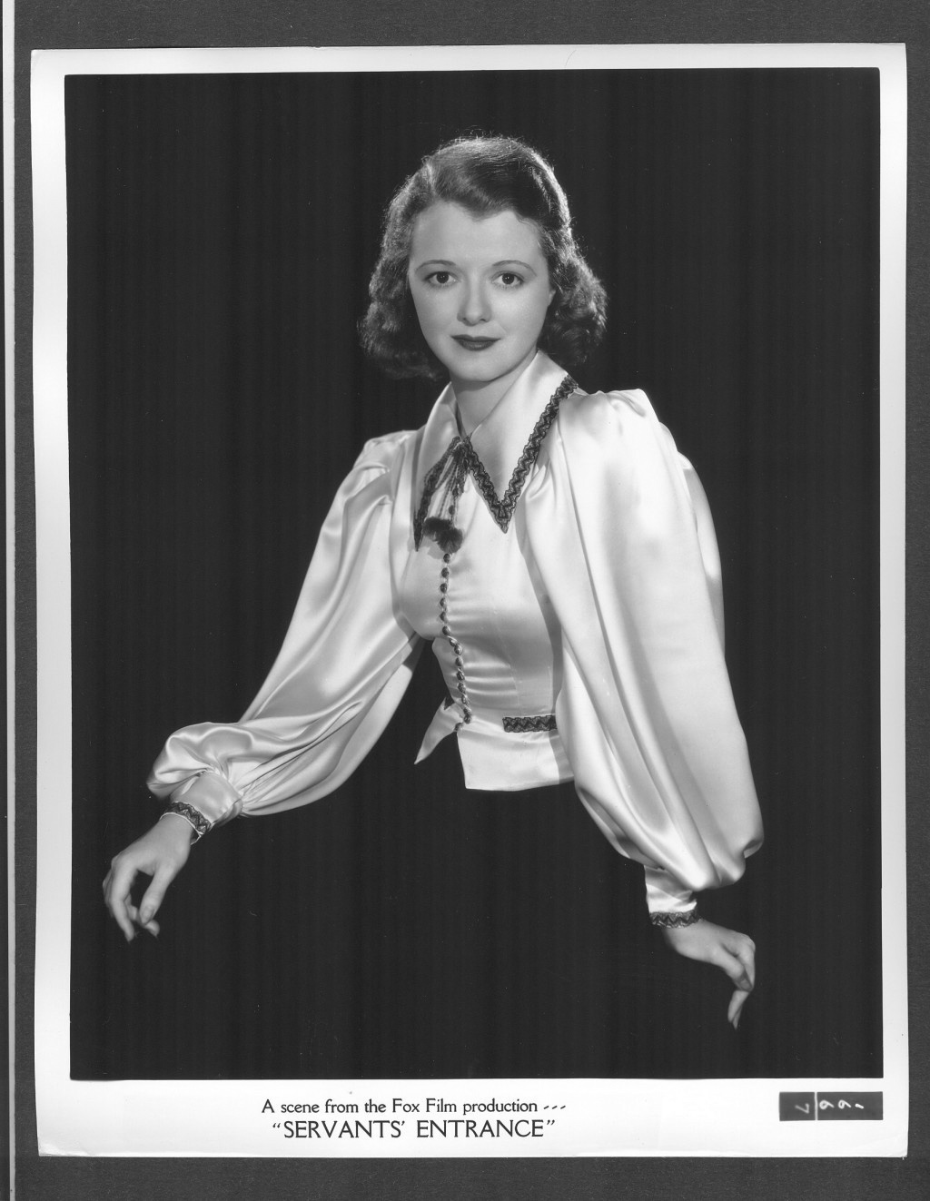 Original publicity photo of Janet Gaynor for film Servant's Entrance